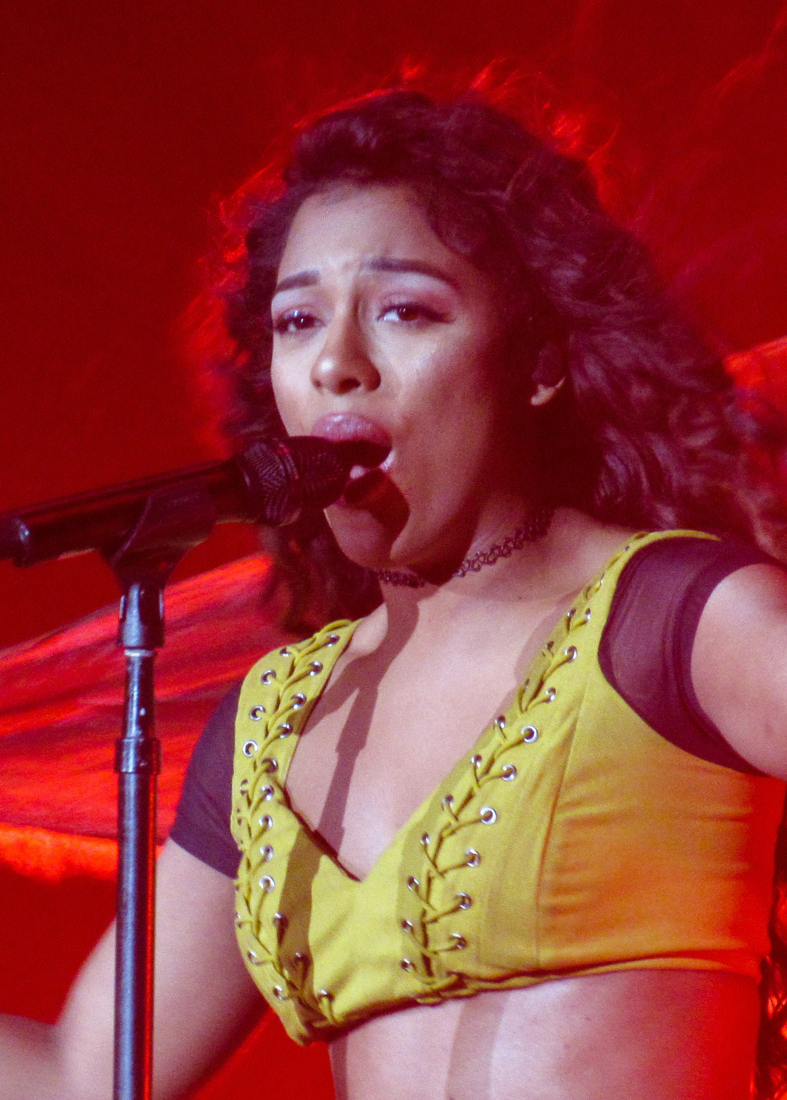 Dangerous Woman Tour 2/19/17 Ariana Grande performing during Dangerous Woman Tour in Manchester, New Hampshire, SNHU Arena, on February 19, 2017.